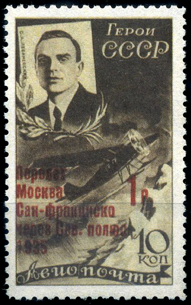 Postage stamp of USSR, 1935: Aviator Sigizmund Levanevsky. With overprint (overprint on this copy of stamp contains misspelling "Сан-франциско" with lowercase "ф")